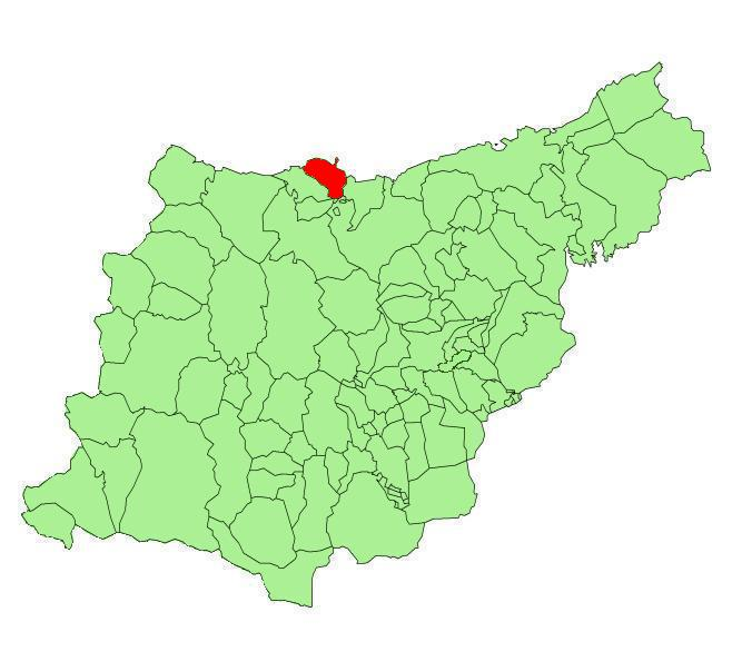 Altzo municipality in the province of Guipuzcoa